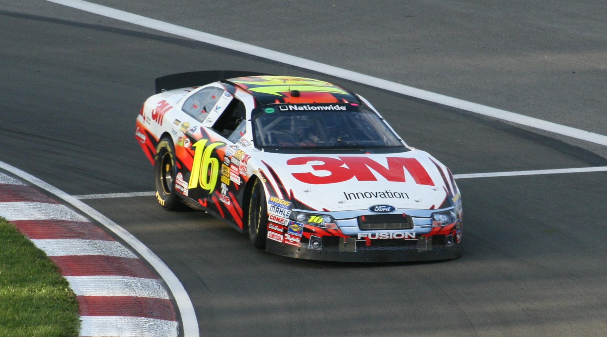 Colin Braun in the qualification for the 2010 NAPA Auto Parts 200 at the Circuit Gilles Villeneuve in Montreal.